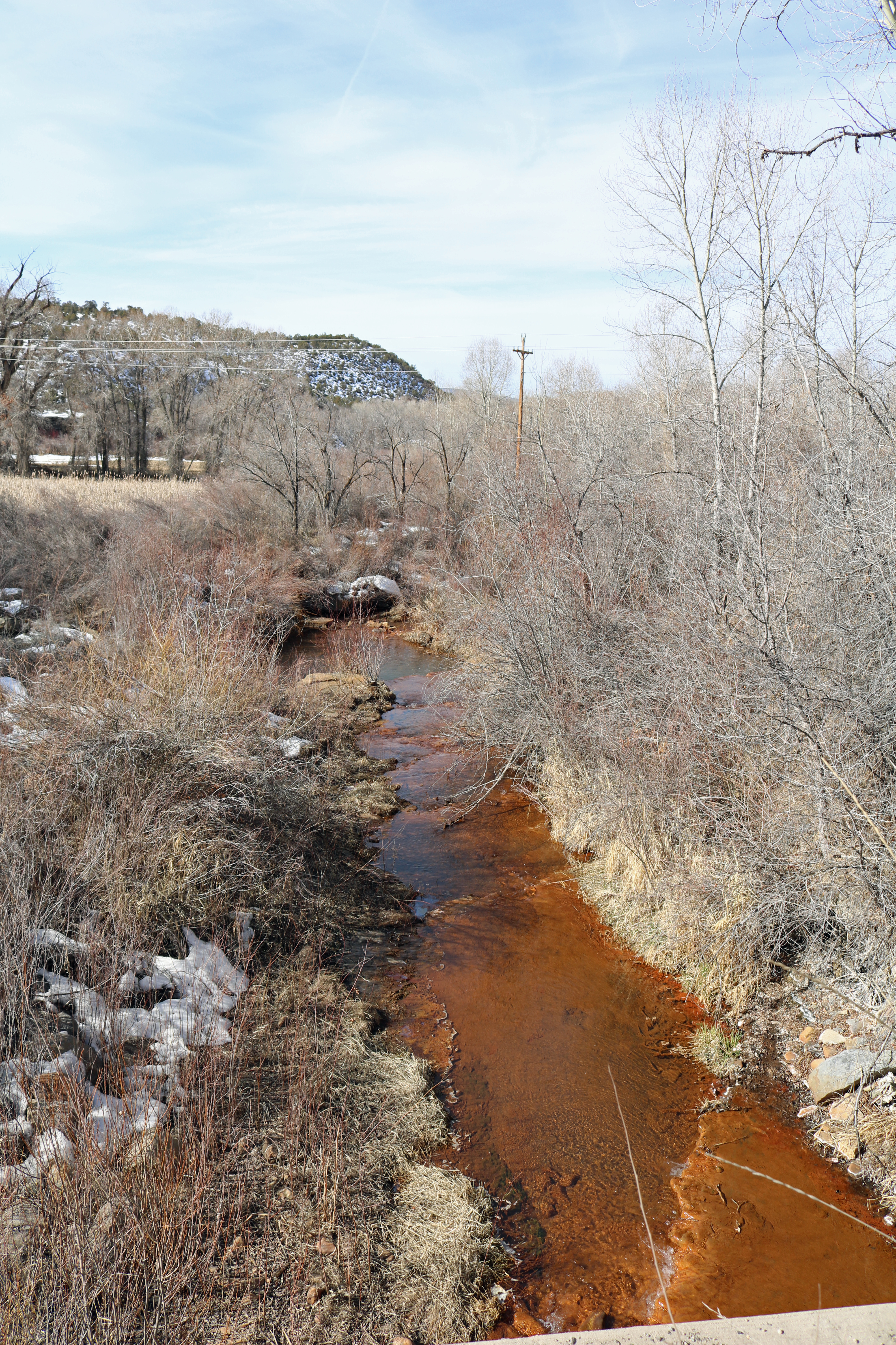 Smith Fork, a tributary of the Gunnison River. The view here is from a bridge on Colorado State Highway 92 in Crawford, Colorado. A sign at this location says, "Smith Fork Creek."